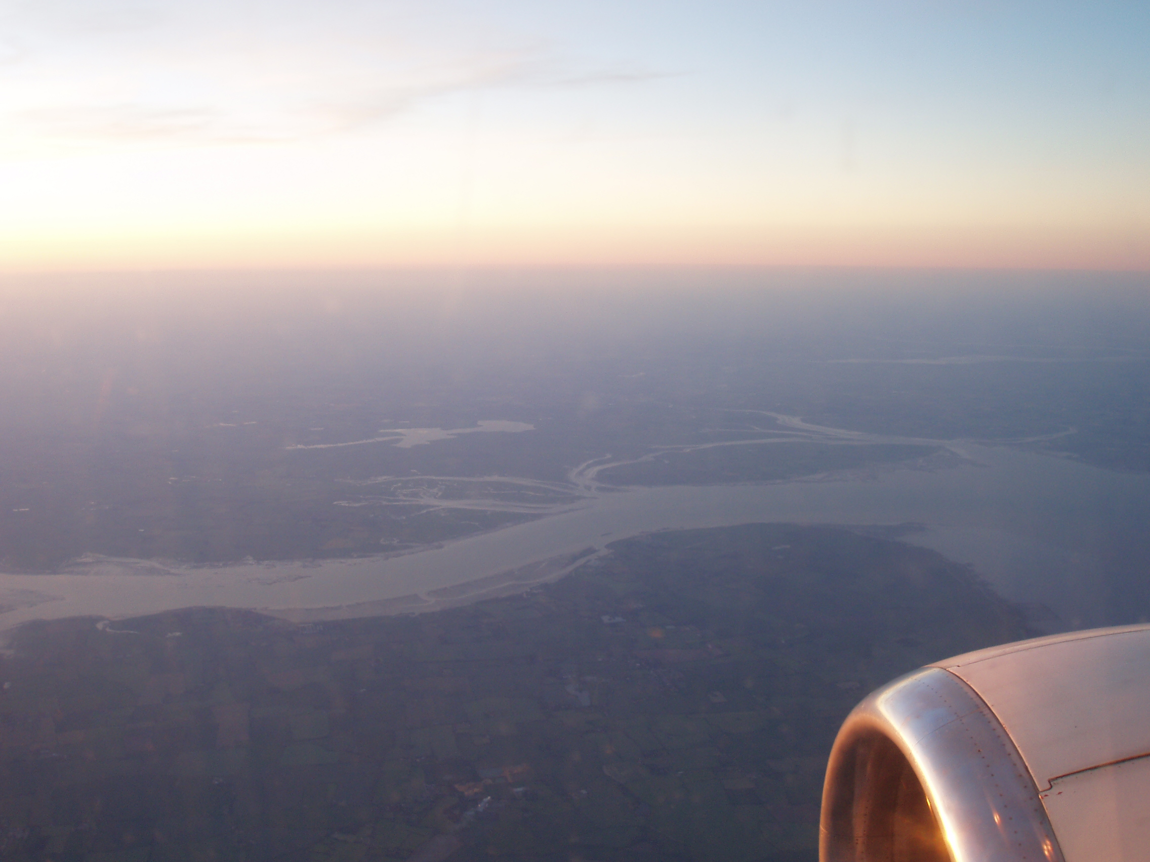 Aerial view of the Blackwater Estuary, the estuary of the River Blackwater, on the Essex coast in the northern part of the Greater Thames Estuary. Mersea Island is at right. UK.